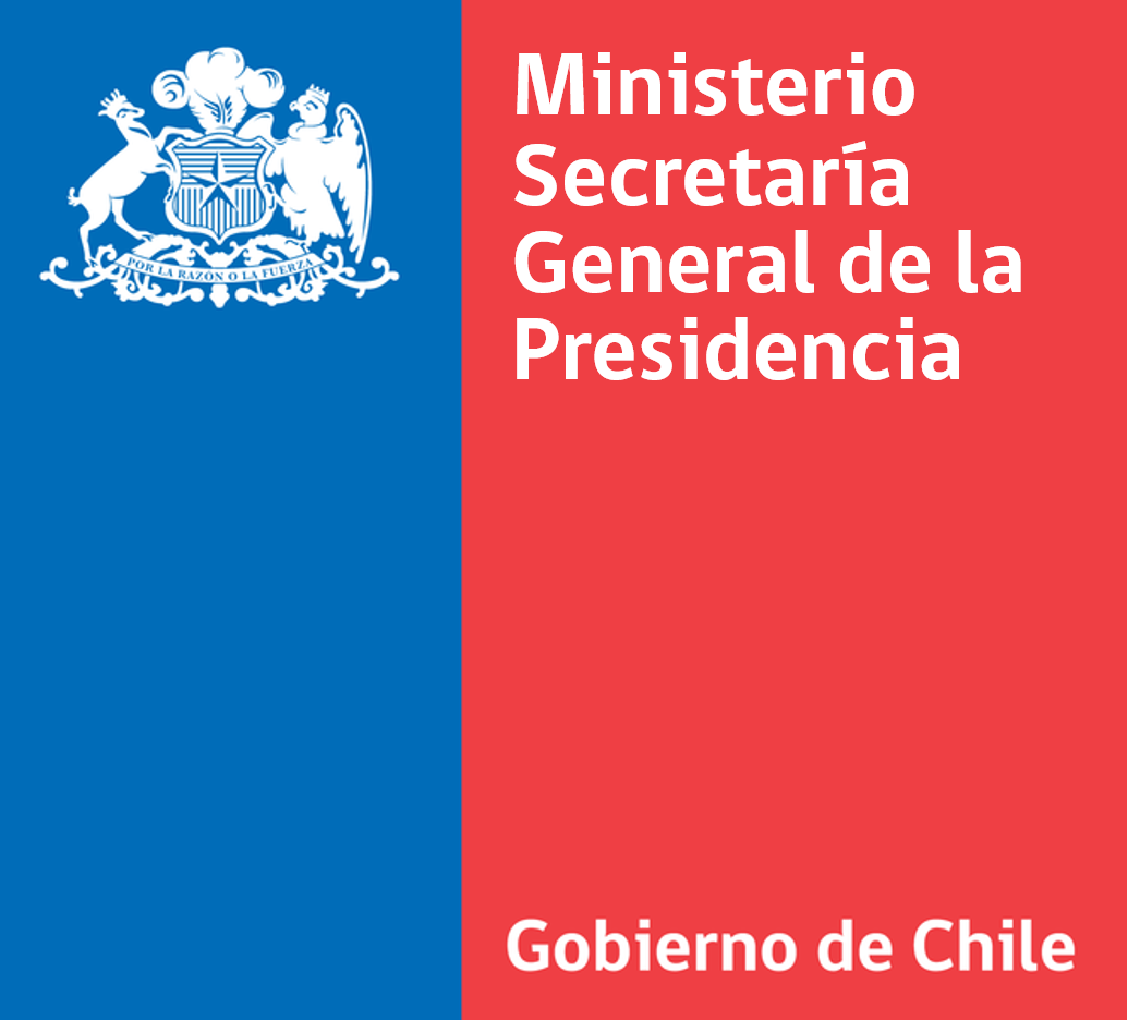 Logo of the Ministry Secretary General of the Presidency.